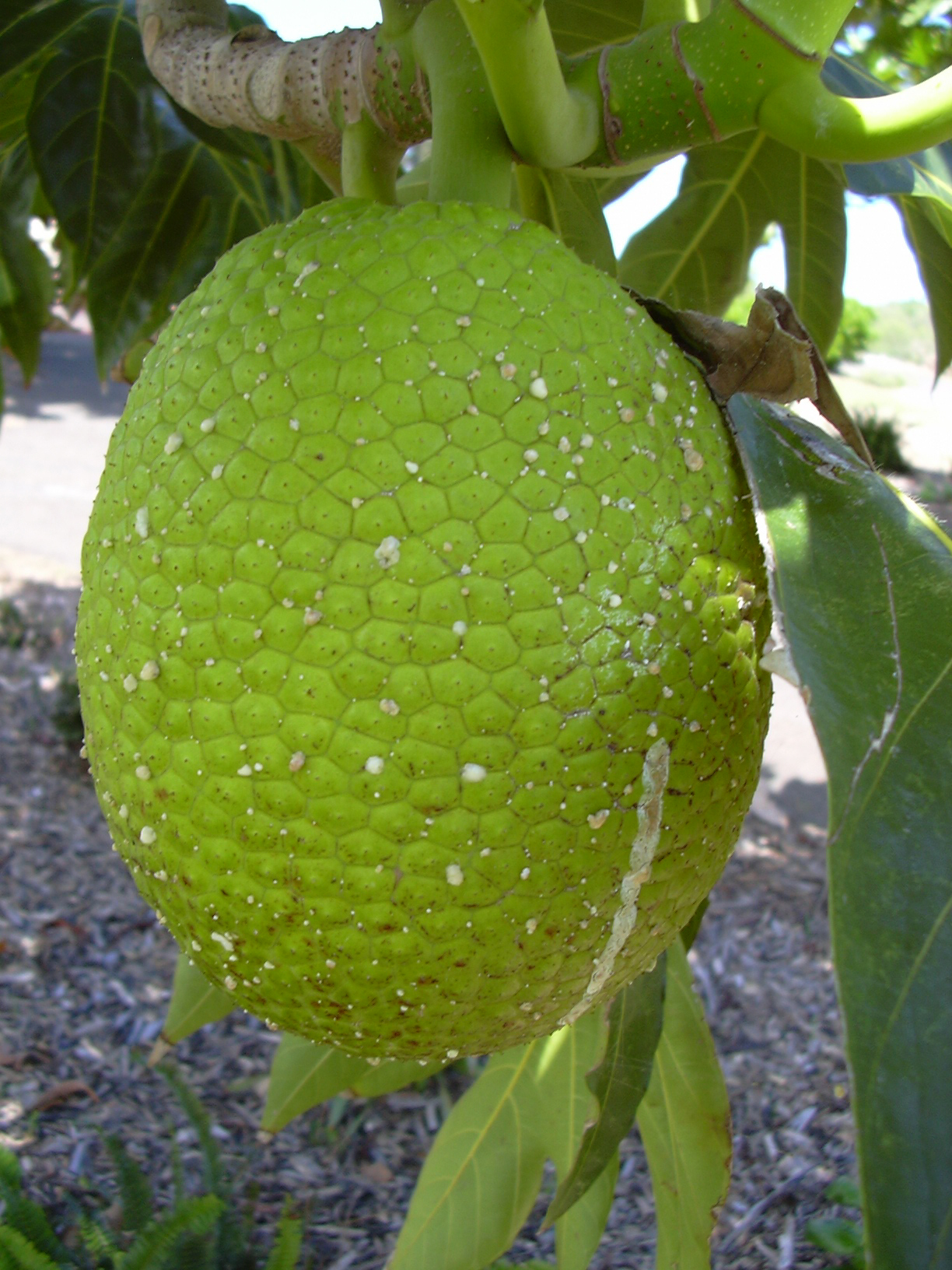 Artocarpus altilis (fruit). Location: Maui, Maui Nui Botanical Garden